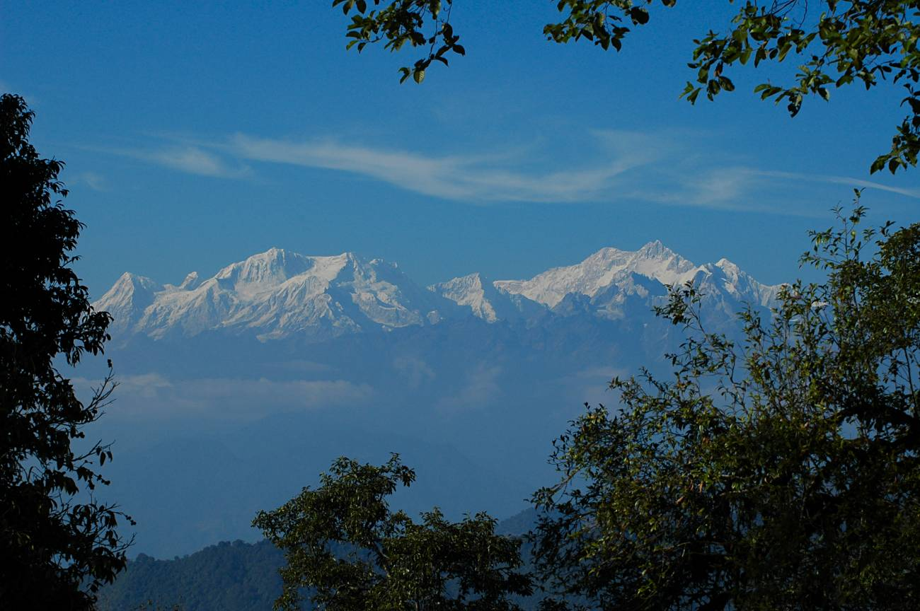 View from South Sikkim to Kangchenjunga and its satellite peaks